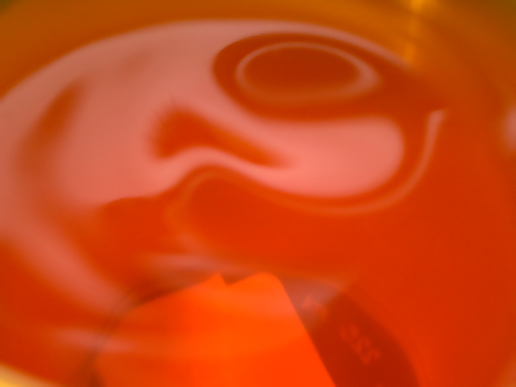 mmm... Sweet, delicious sugar-water. Is that a face in my drink?